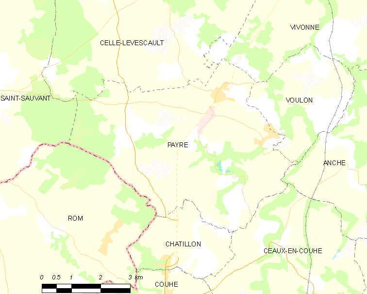 Map of French municipality Payré